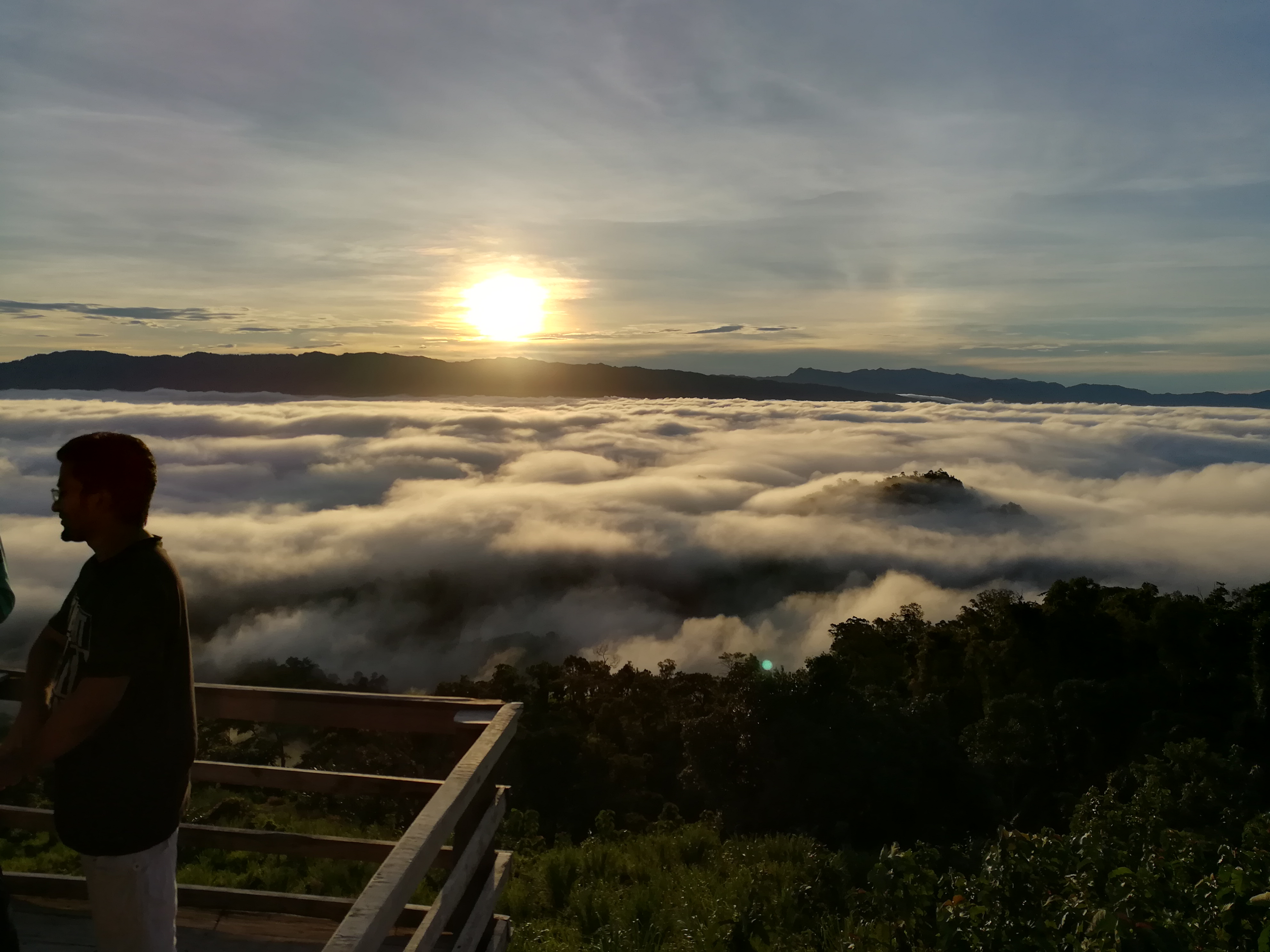 SajekSight